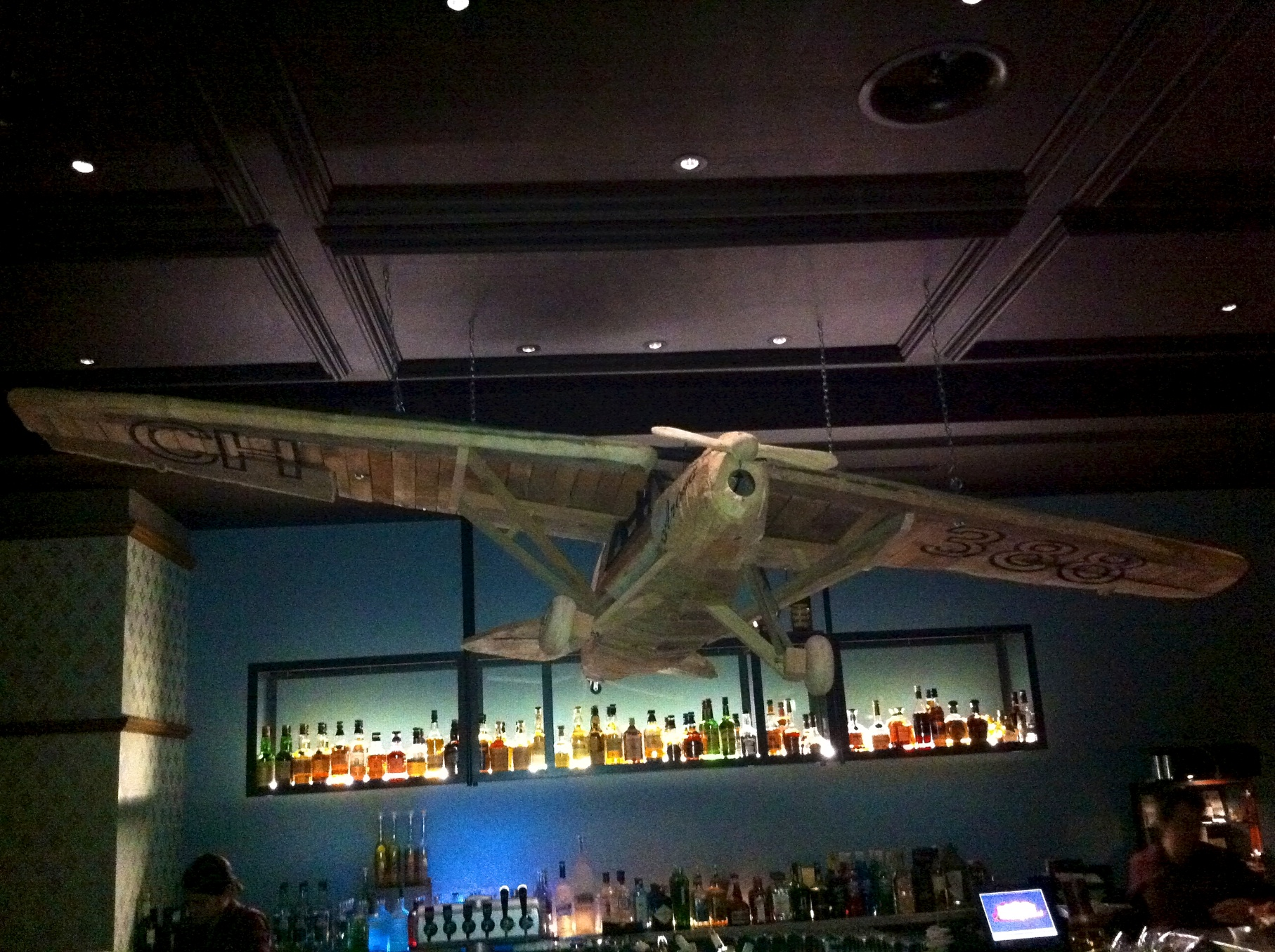 Wooden model of De Havilland DH.85 Leopard Moth "CH 388" at Casino-Kursaal in Arosa, Switzerland. The original plane was used for passenger transport in the 1930s in Arosa.